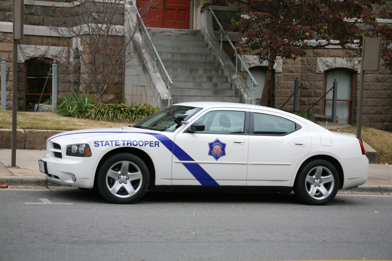 On March 19th, 1935 when Governor J.M. Futrell and the Arkansas General Assembly approved and signed into law Act 120, known as the Chrip-Carter bill, the Arkansas State Police was born. In cities and towns across Arkansas today there are men and women who proudly wear the badge of the Arkansas State Police. Their distinctive uniform which includes the wide-brim campaign hat sets these law enforcement officers apart and without a second glance local citizens know they are in the presence of Arkansas State Troopers.